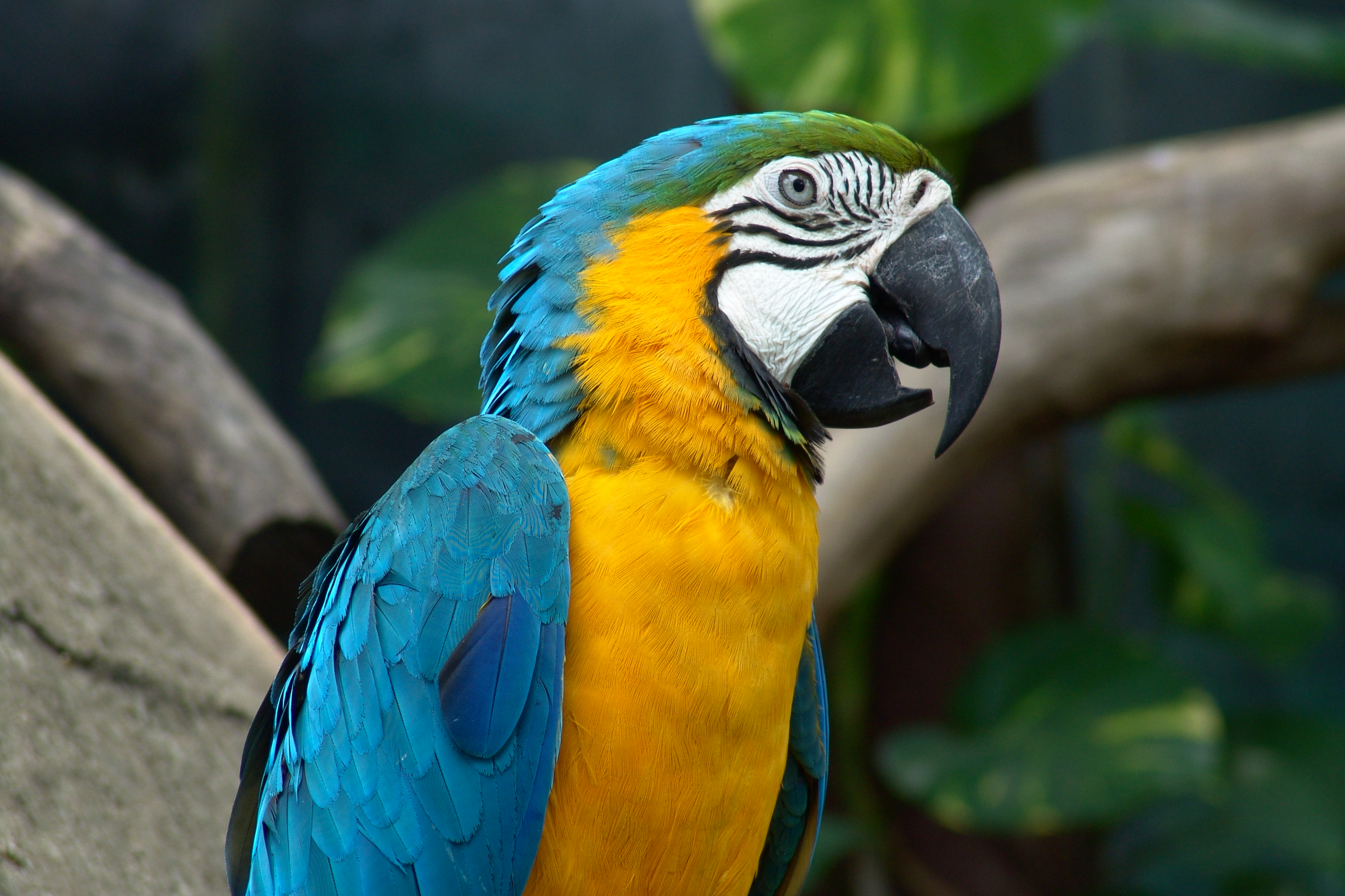 Blue-and-yellow Macaw (also known as the Blue-and-gold Macaw) at Jurong BirdPark, Singapore.